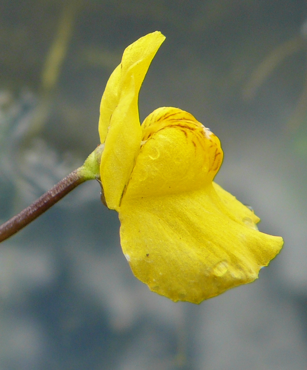 Utricularia australis in a lake of Auvergne, France